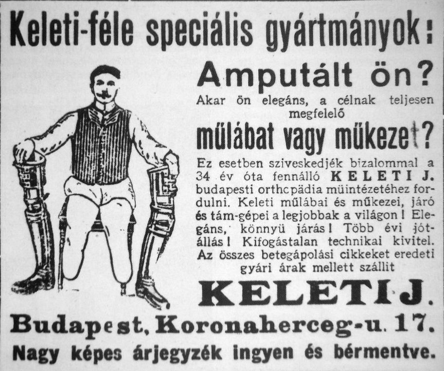 Old Advert from a Hungarian newspaper, 1918. "Are You amputed? Looking for a fine prosthesis?..."